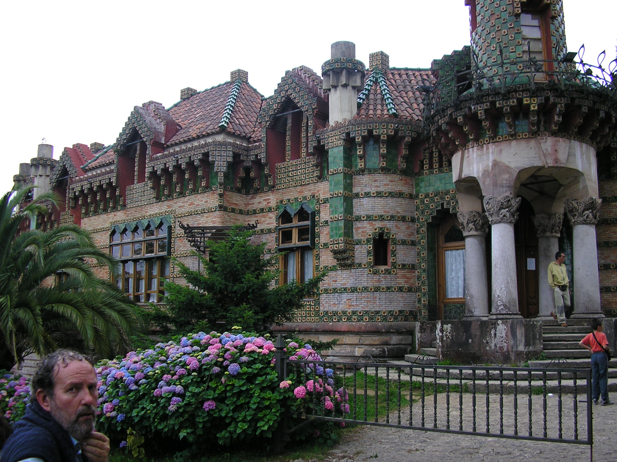 El Capricho (1883-1885) by Antonio Gaudí, in Comillas (Cantabria, España)